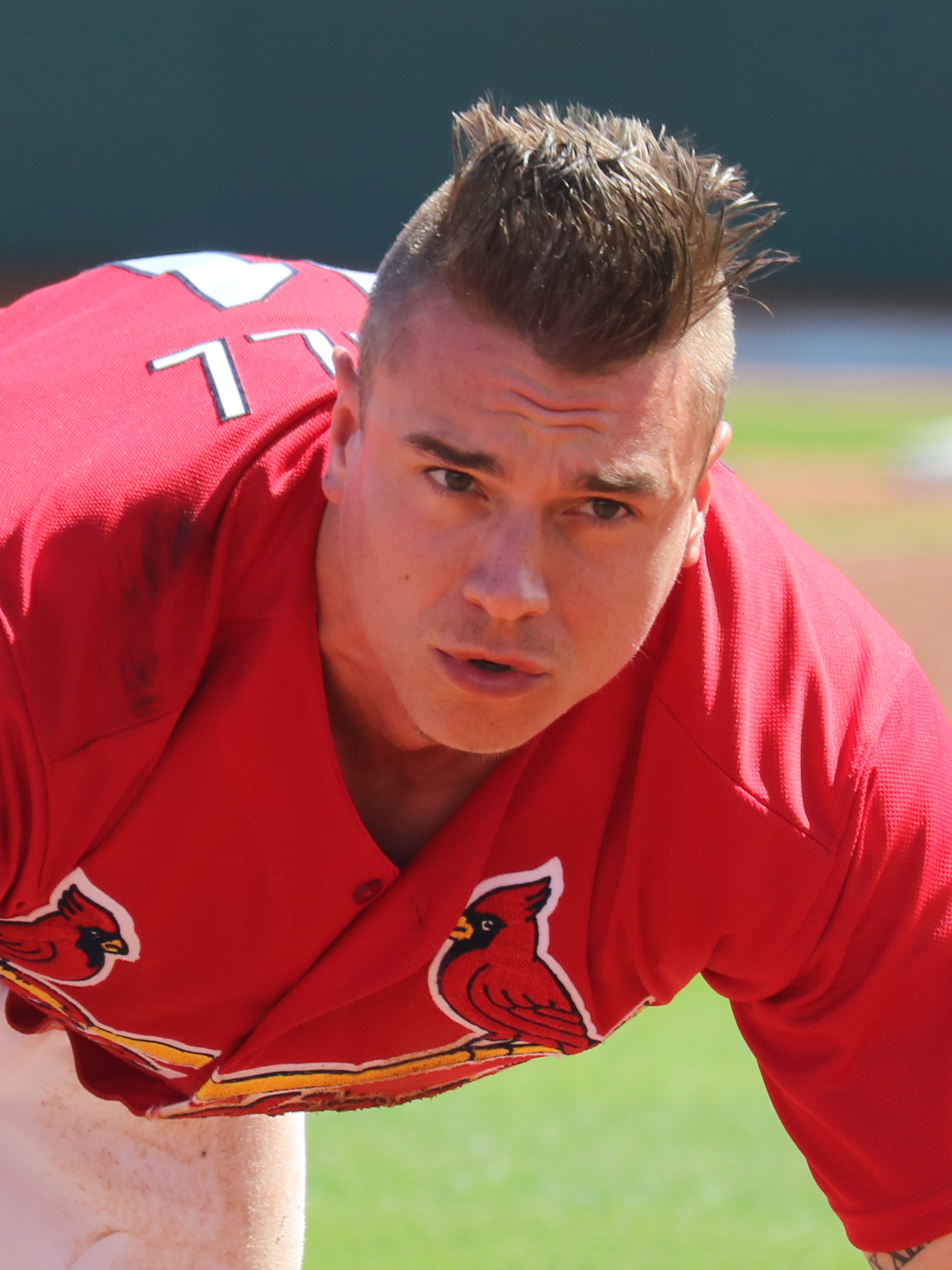 Tyler O'Neill reaching 3rd base on March 3, 2019